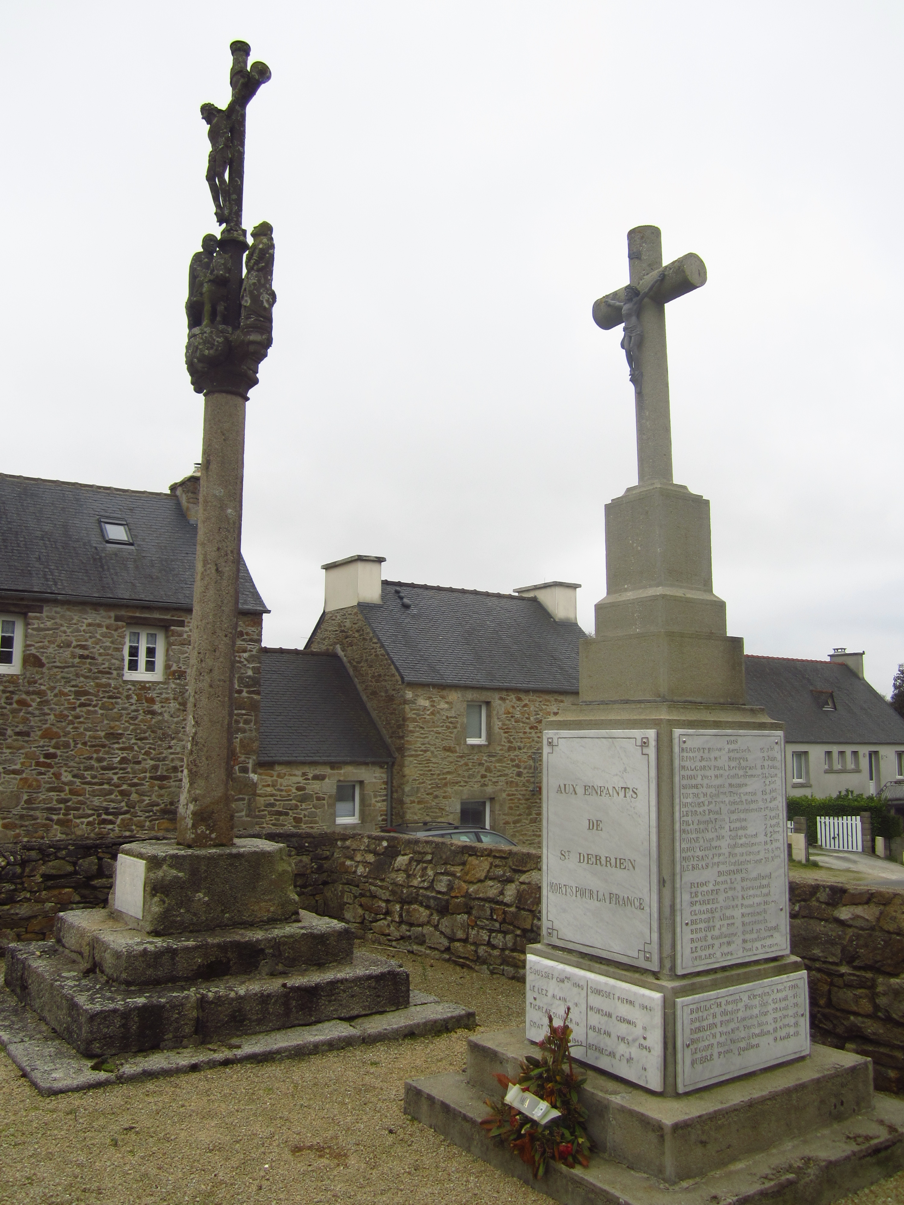 Church of Saint-Derrien, Finistère